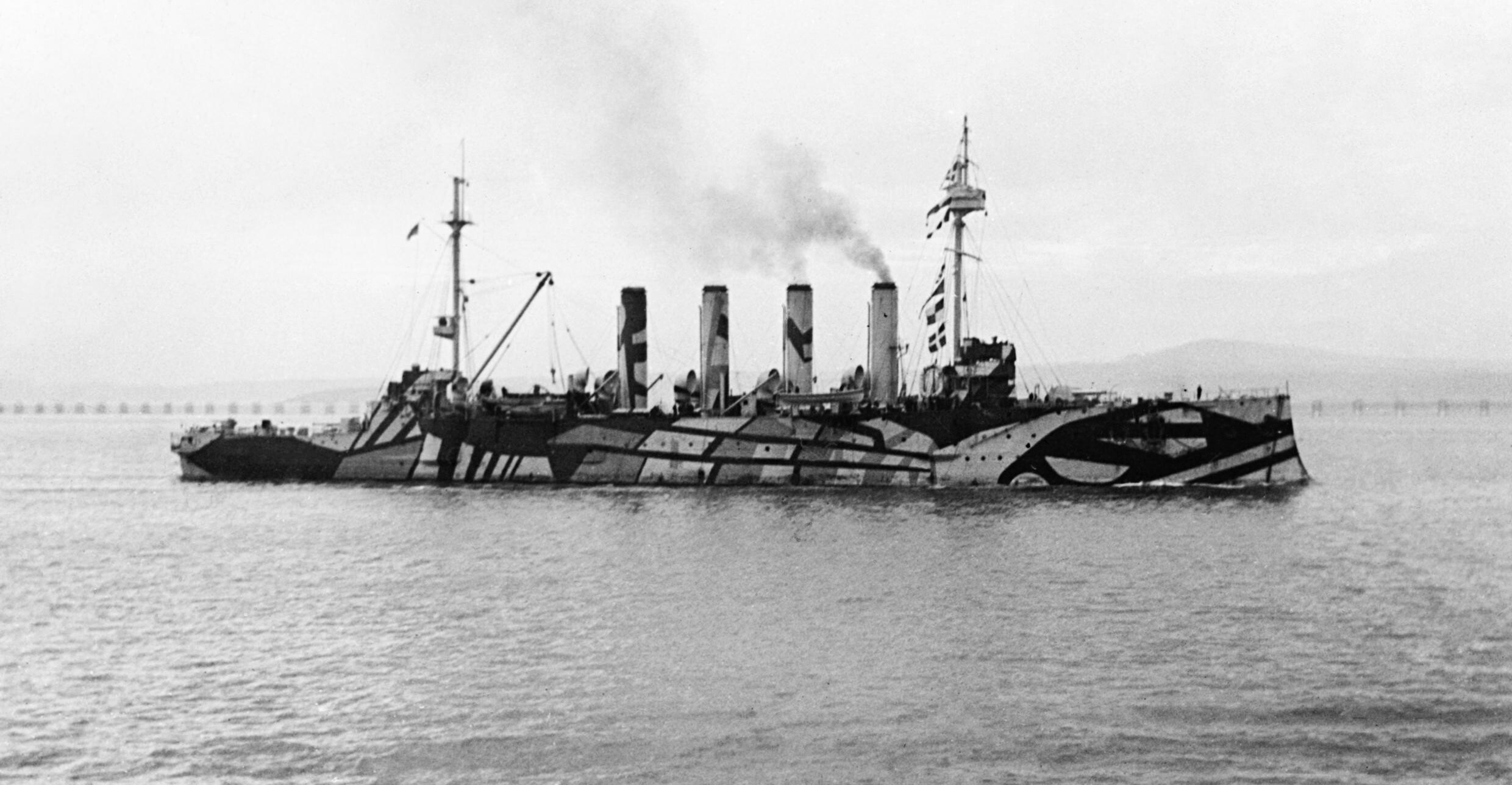 The converted minelayer HMS AMPHITRITE, dazzle camouflaged, 1918